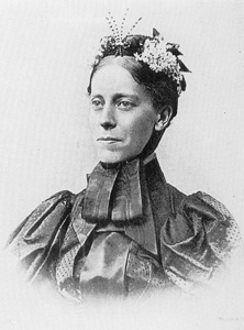 Portrait of Mary Kingsley (1862-1900)